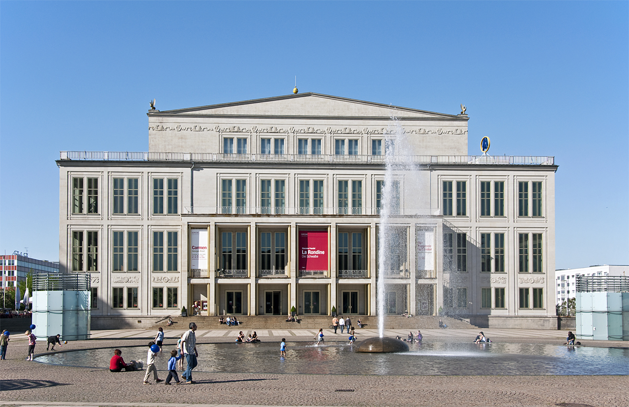 Leipzig Opera